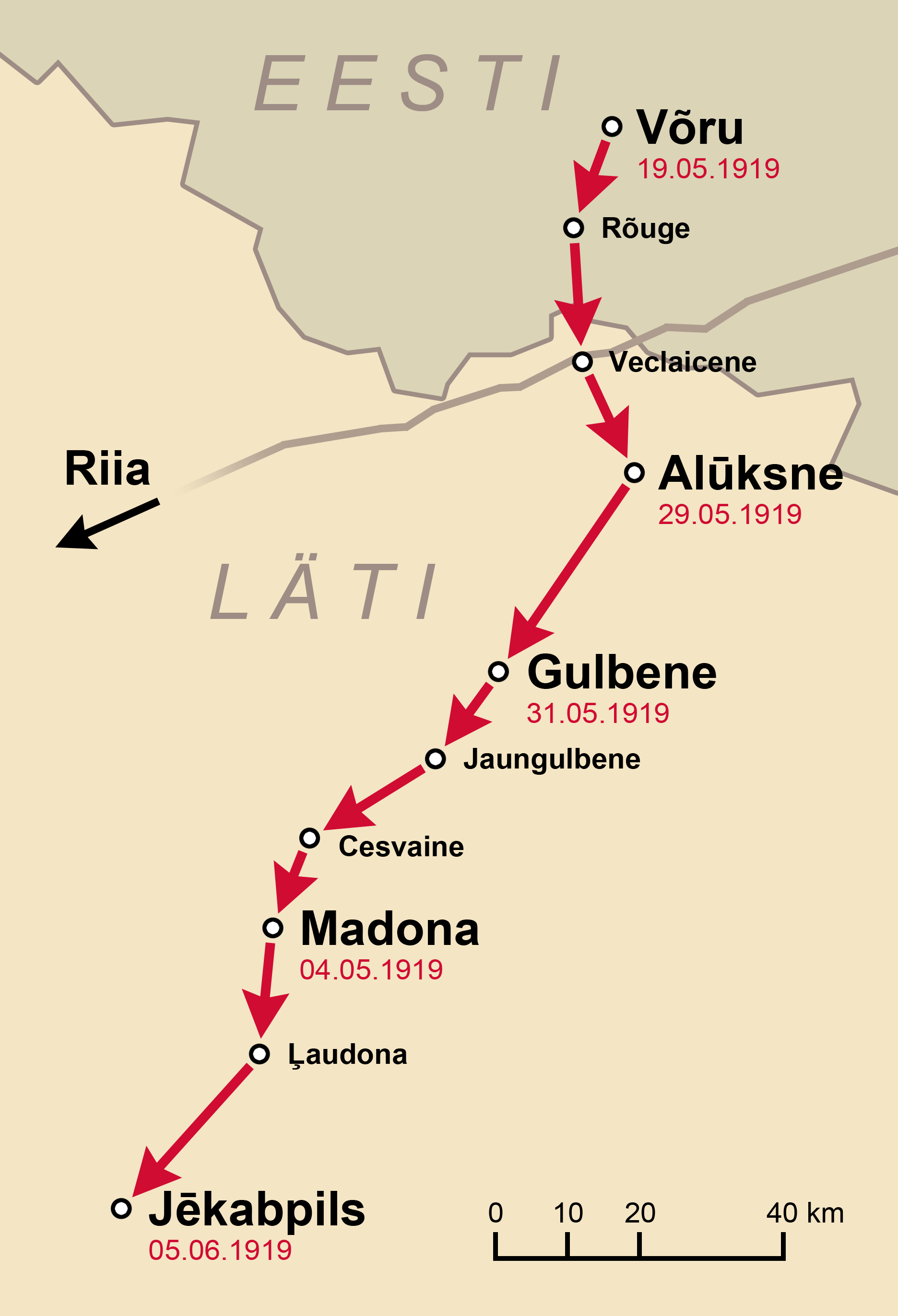 The battle route of the Danish Baltic Auxiliary Corps in Jakobstadt operation during the Estonian and Latvian War of Independence.